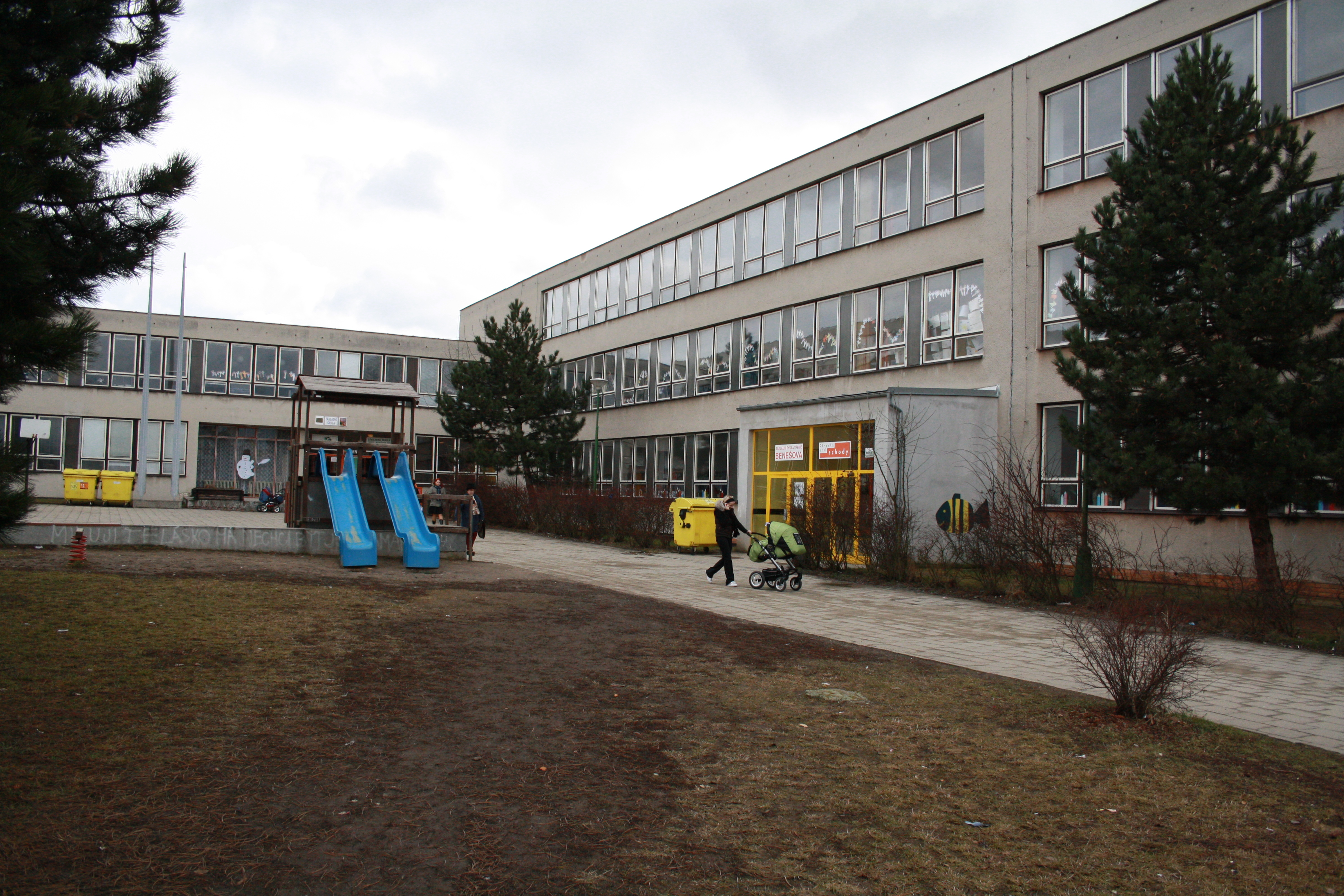 Overview of ZŠ Benešova, Třebíč, Czech Republic.